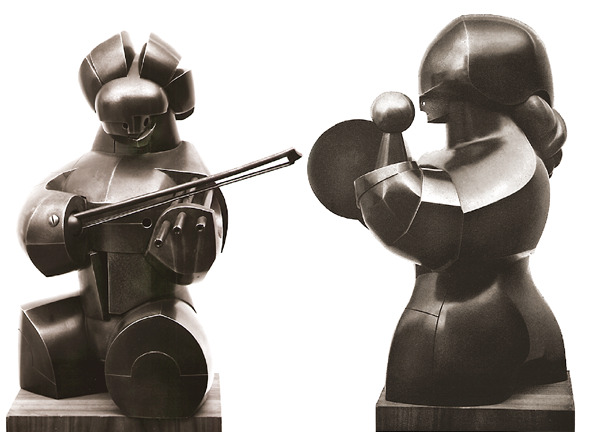 Howard Newman's Sculpture Duet